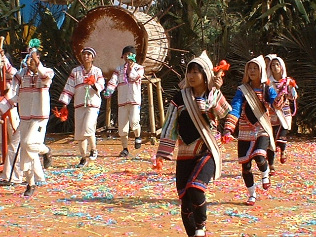 基諾族節慶中的舞蹈